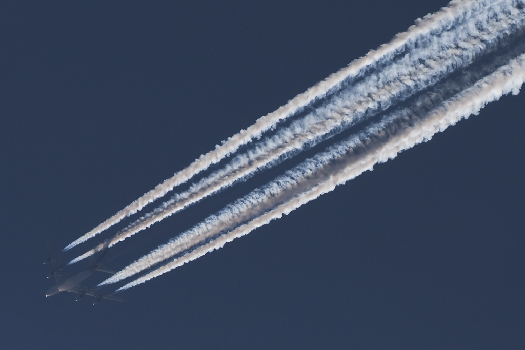 9V-SKH A380 Singapore Airlines at Flight Level 400